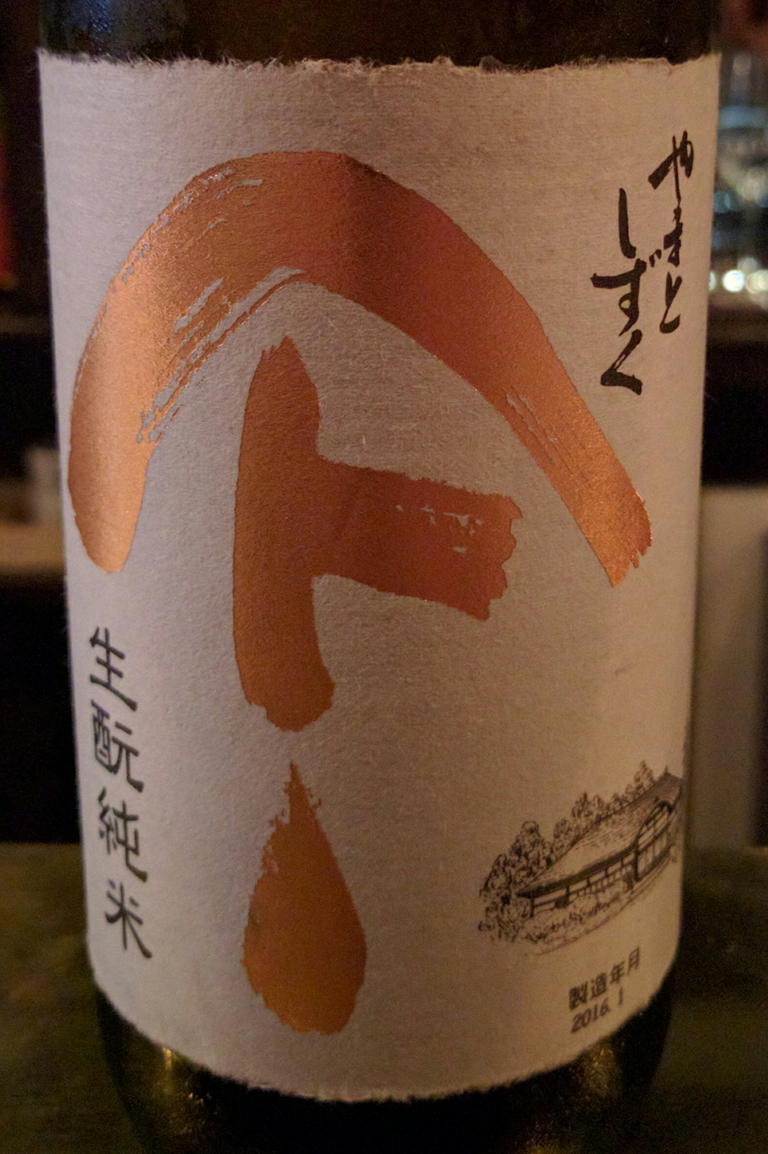 The label on a bottle of Yamato Shizuku kimoto junmai sake, with name やまと しずく Yamato Shizuku "Japan droplet" (spelt out at top right) shown by a rebus ∧ト💧 which is read as 山 yama "mountain" (symbolized by the ∧) + ト to (katakana character for to) + 雫 shizuku "droplet" (symbolized by the 💧).